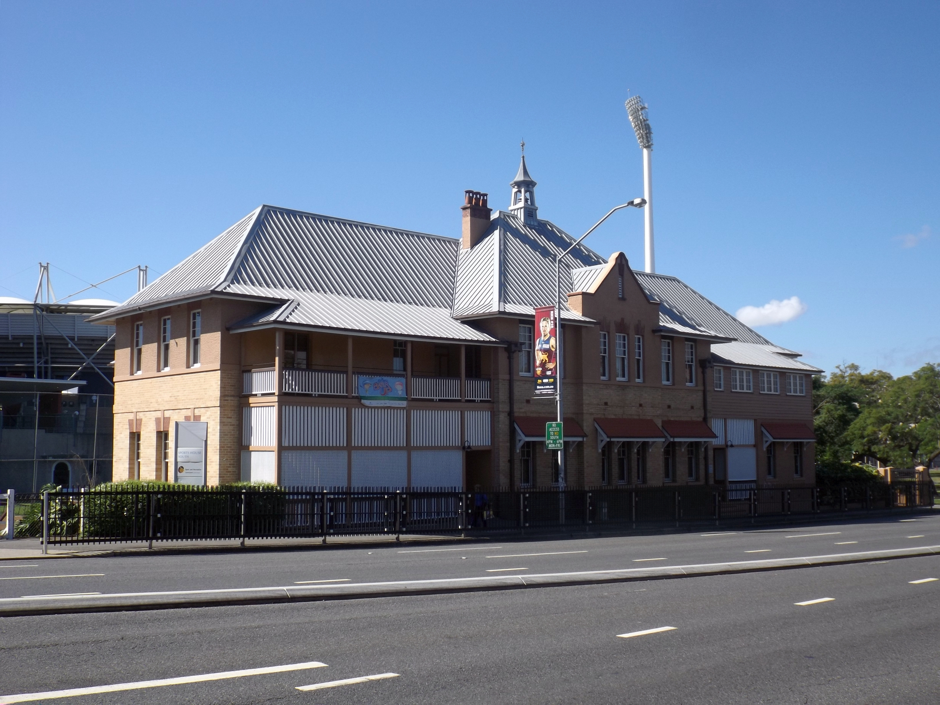 Photo of Main Road and Woolloongabba Police Station at Woolloongabba, Brisbane, Queensland, Australia.